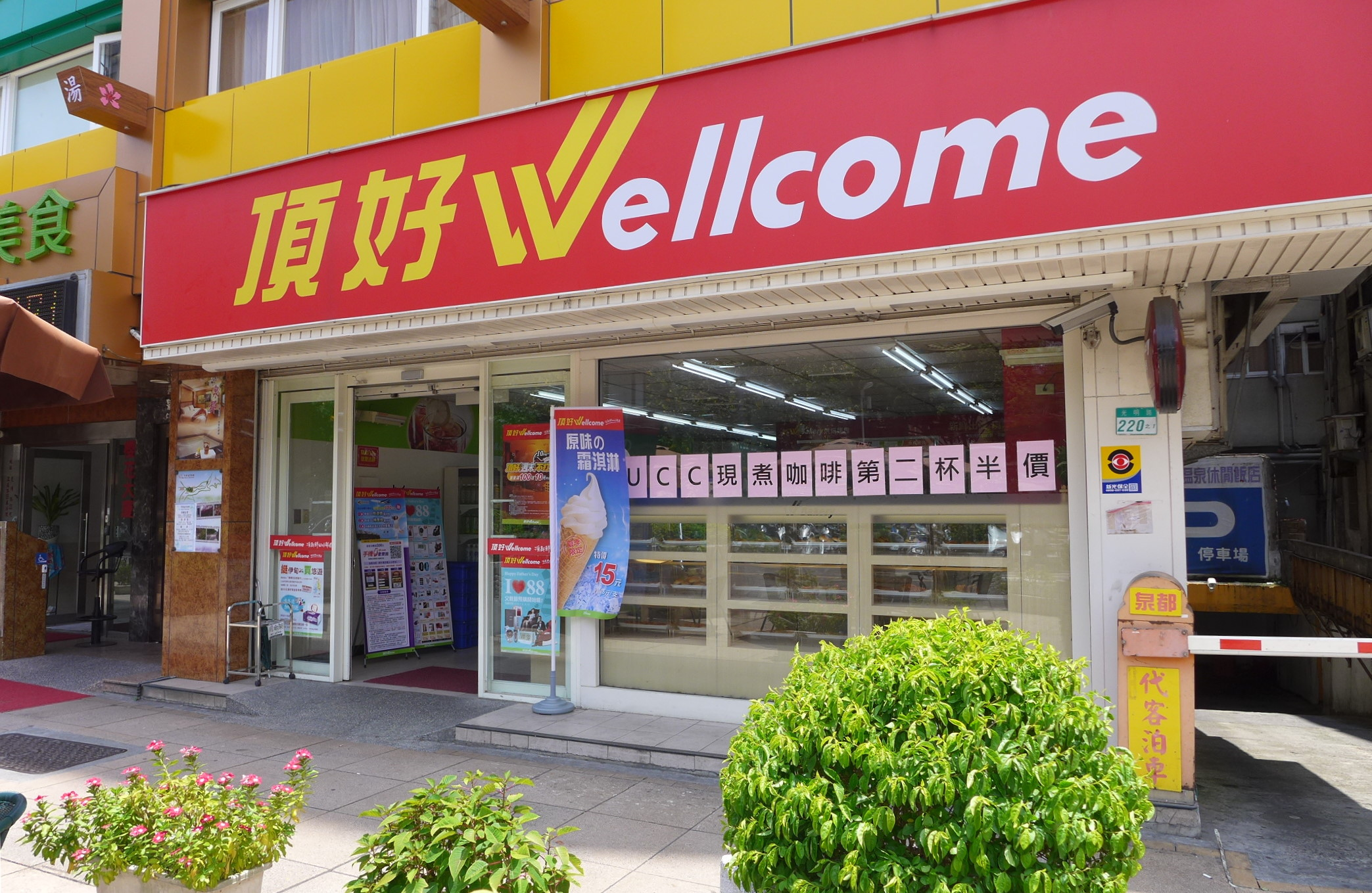 Wellcome Beitou Store on Guangming Road, Beitou District, Taipei City.